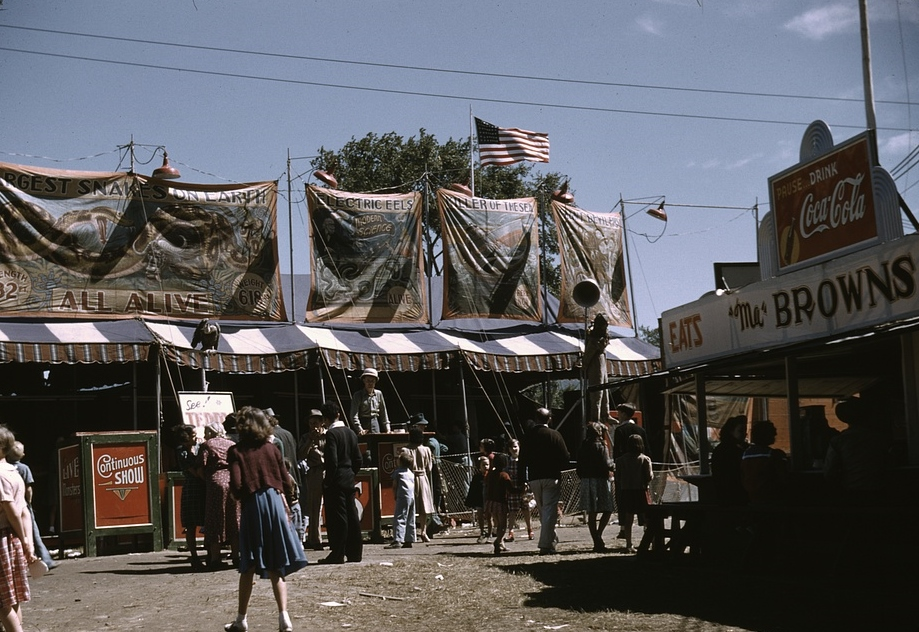 Title: Barker at the grounds of the Vermont state fair, Rutland